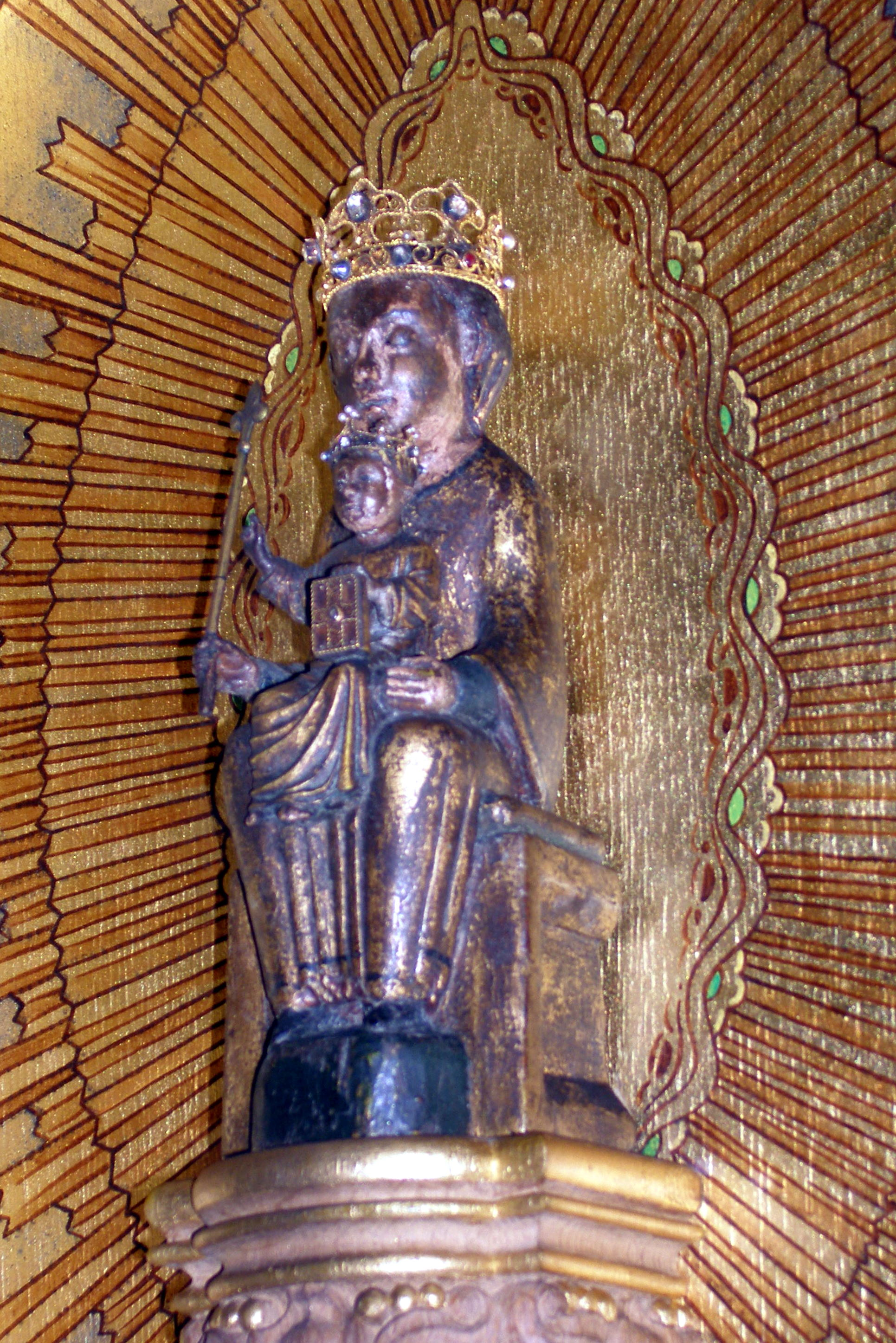 Sculpture Onze Lieve Vrouw van Eiteren Hulp in nood (12th century). Height: 22 cm. The sculpture can be found in the Sint-Nicolaas basilica (1885-1887) in IJsselstein, the Netherlands.